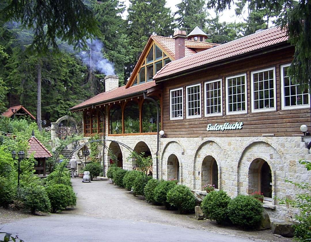 Eulenflucht restaurant in the Süntel hills, Lower Saxony, Germany